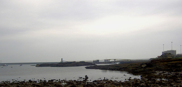 Just inside the 'new' harbour at Holyhead port Good job it was low tide! Not the prettiest view in Wales today.